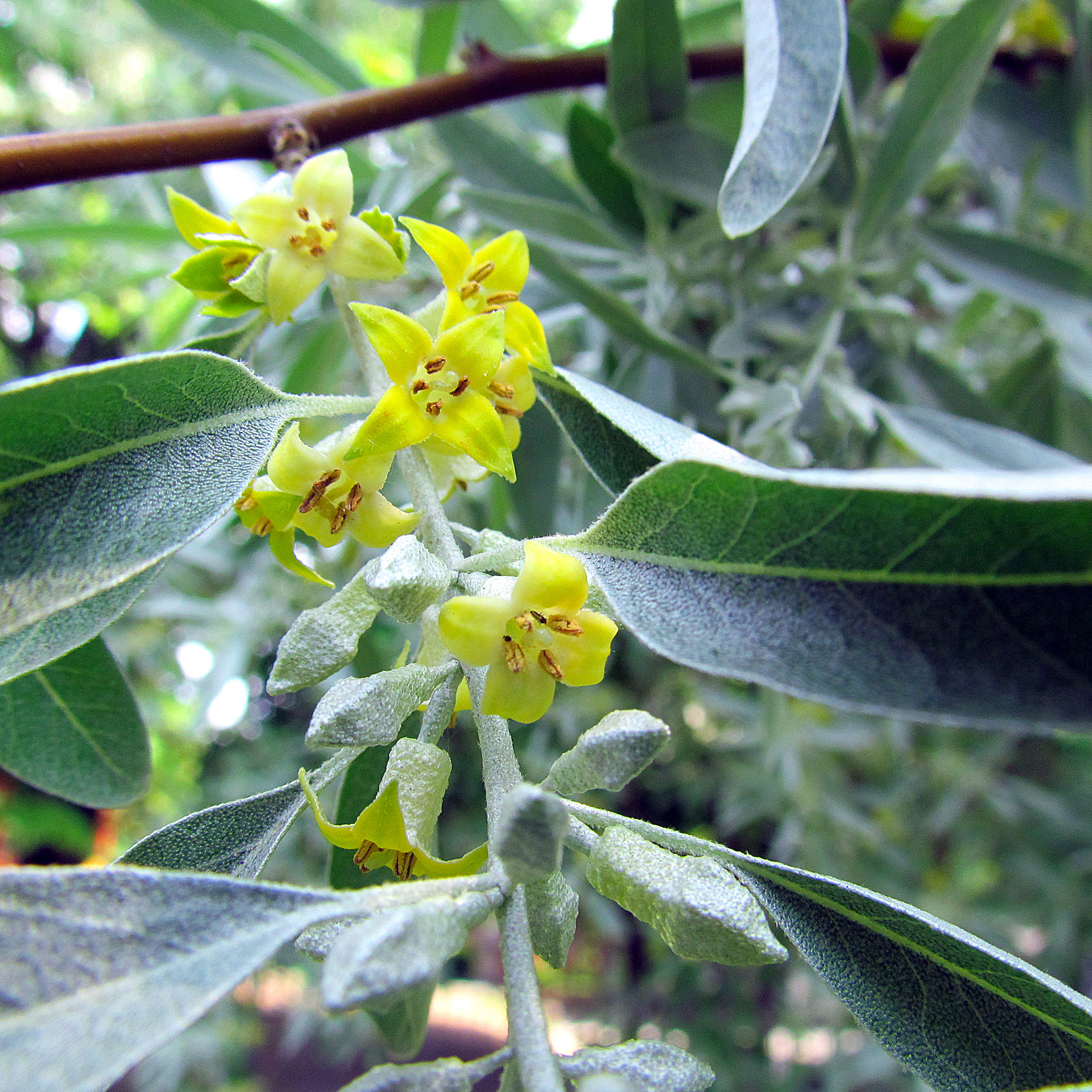 Elaeagnus angustifolia flowers.